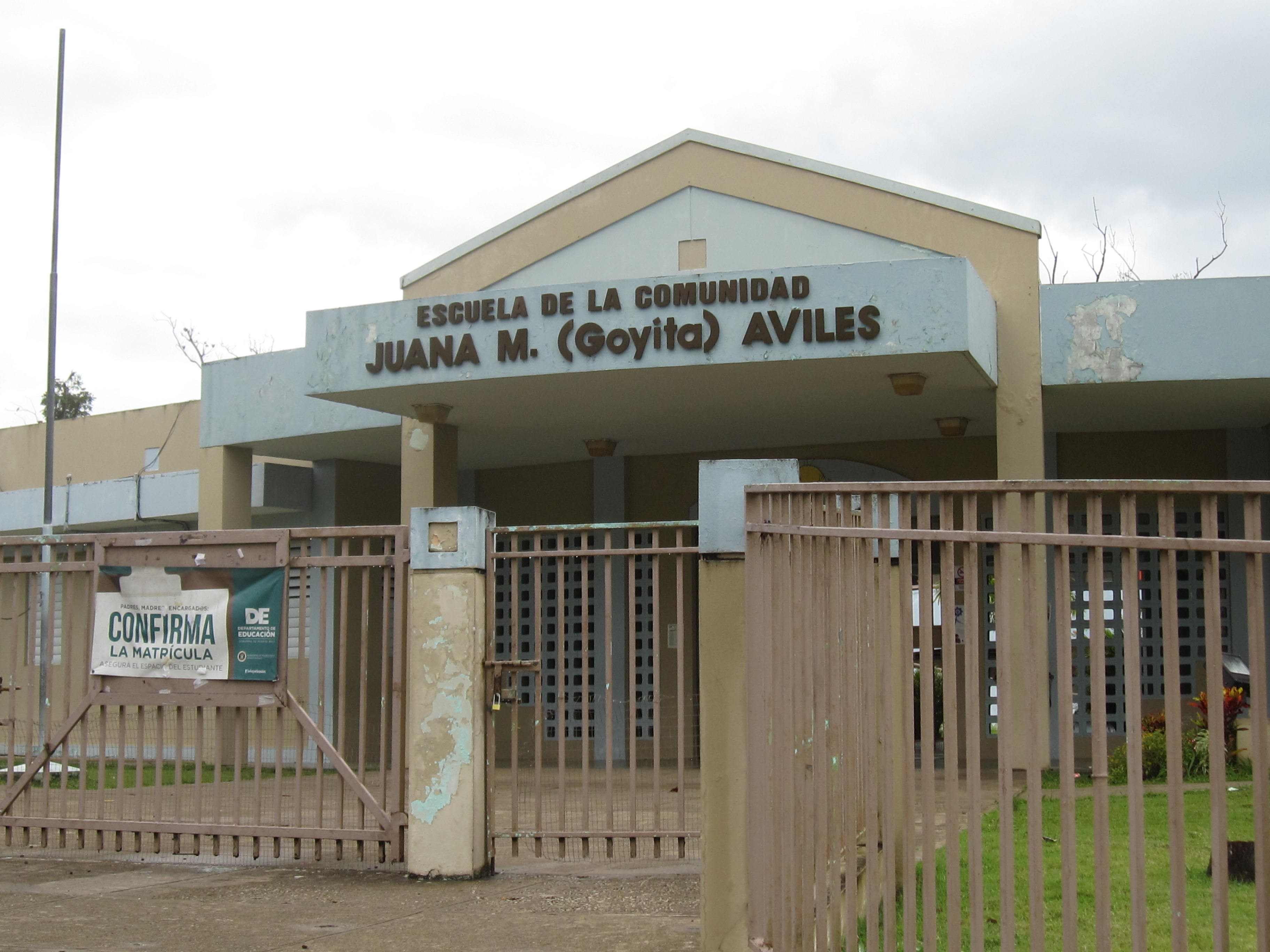 School in barrio Franquez in Morovis, Puerto Rico